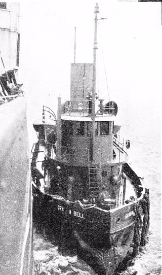 CGS Graham Bell, nest to the freighter Pennyworth, the first freighter to visit Churchill's new Port facilities, in 1933. Original caption: "THE PILOT ALONGSIDE THE PENNYWORTH, at the entrance to the Churchill River. The pilot came aboard from the Canadian Government’s tug, the Graham Bell. The tug is a vessel of 250 tons gross, registered at Quebec, and has a length of 100 feet and a beam of 26 feet."